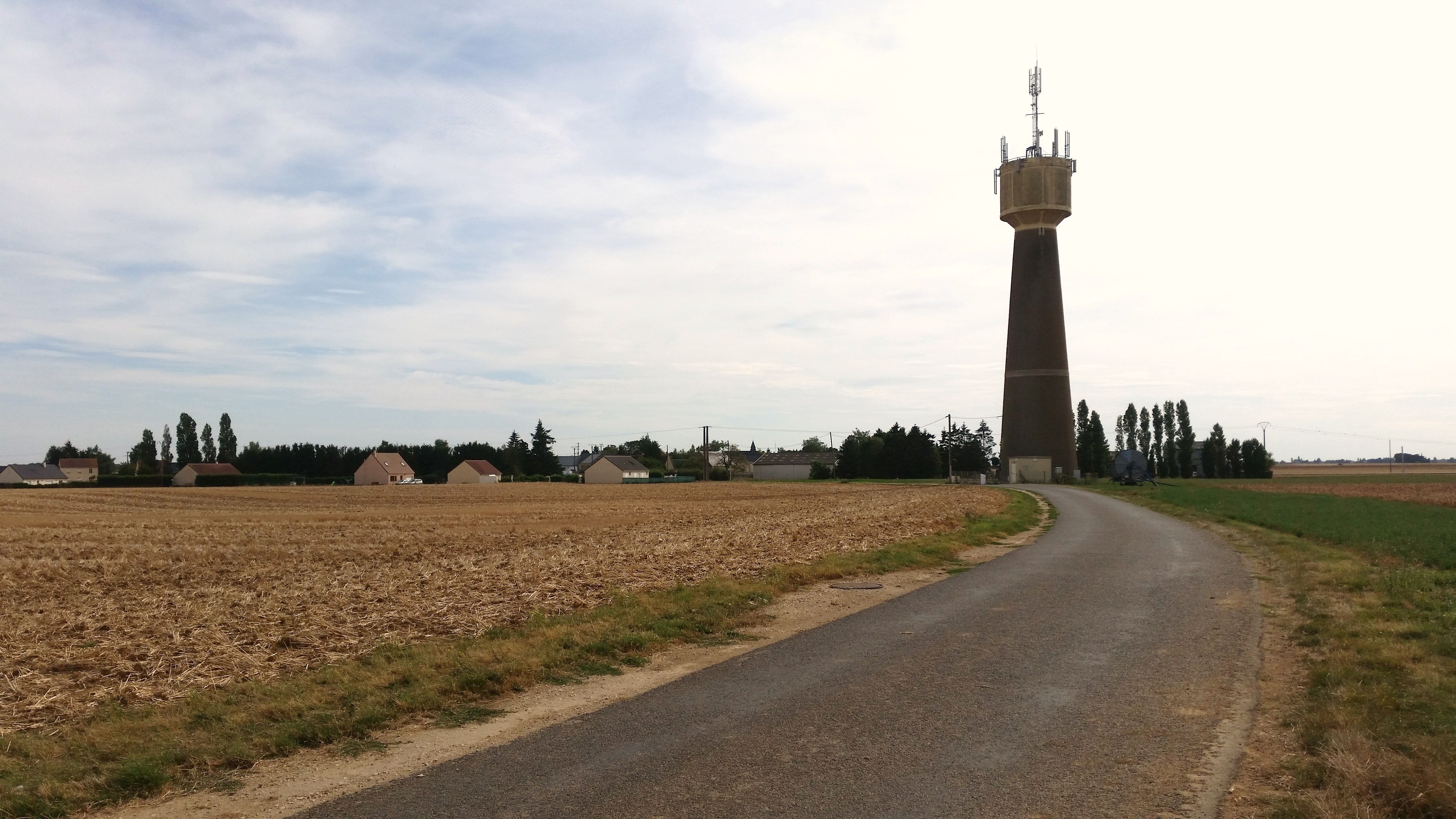 Panorama of the village of Villampuy, Eure-et-Loir, France.